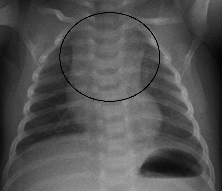 A chest x-ray showing a normal thymus gland in a young child